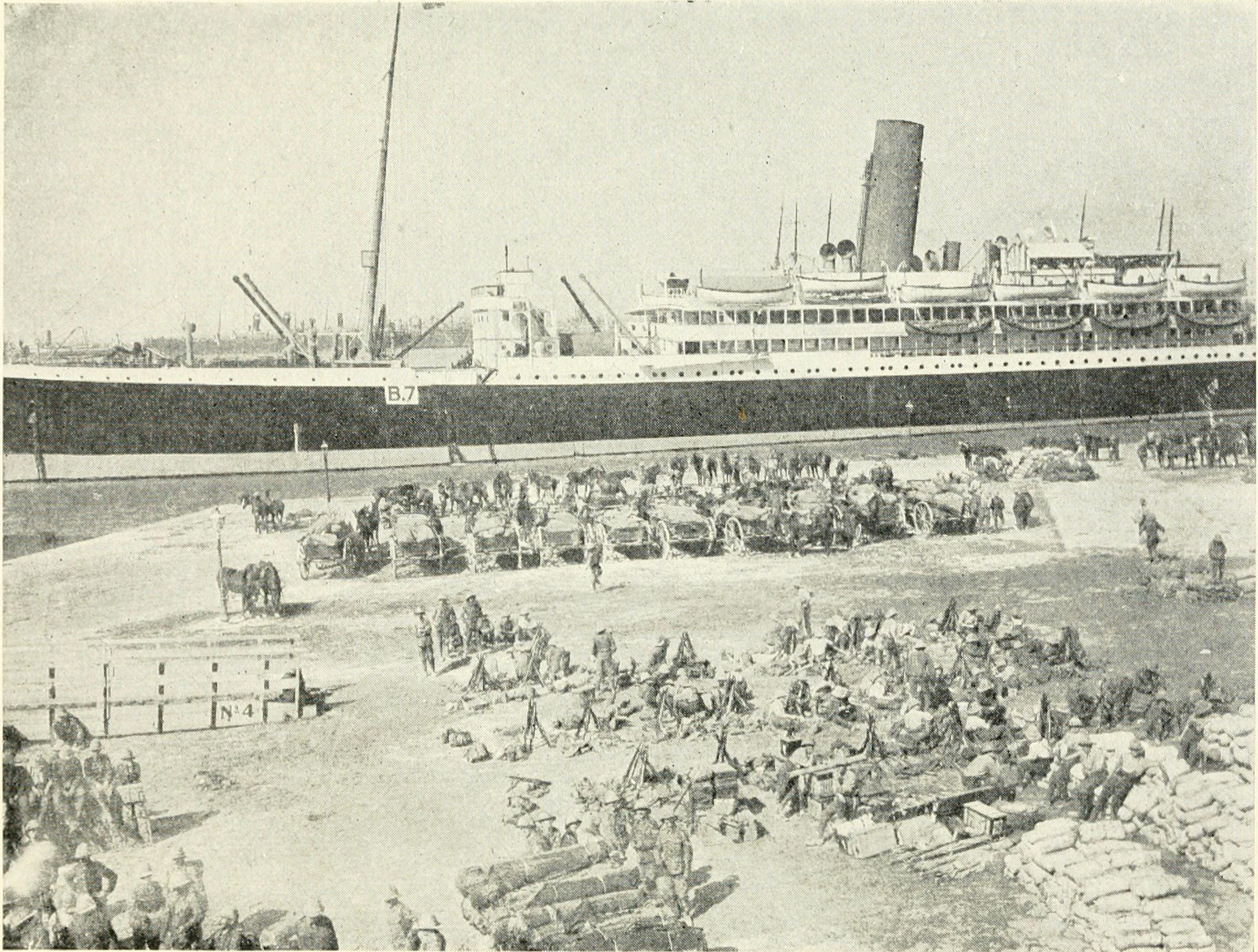 The quay Alexandria with HMT A Page 16 -18. Image from With the Twenty-ninth division in Gallipoli, a chaplain's experiences, 1916 book. Transport B7 prepares to leave Alexandria with troops and equipment for the Gallipoli landings